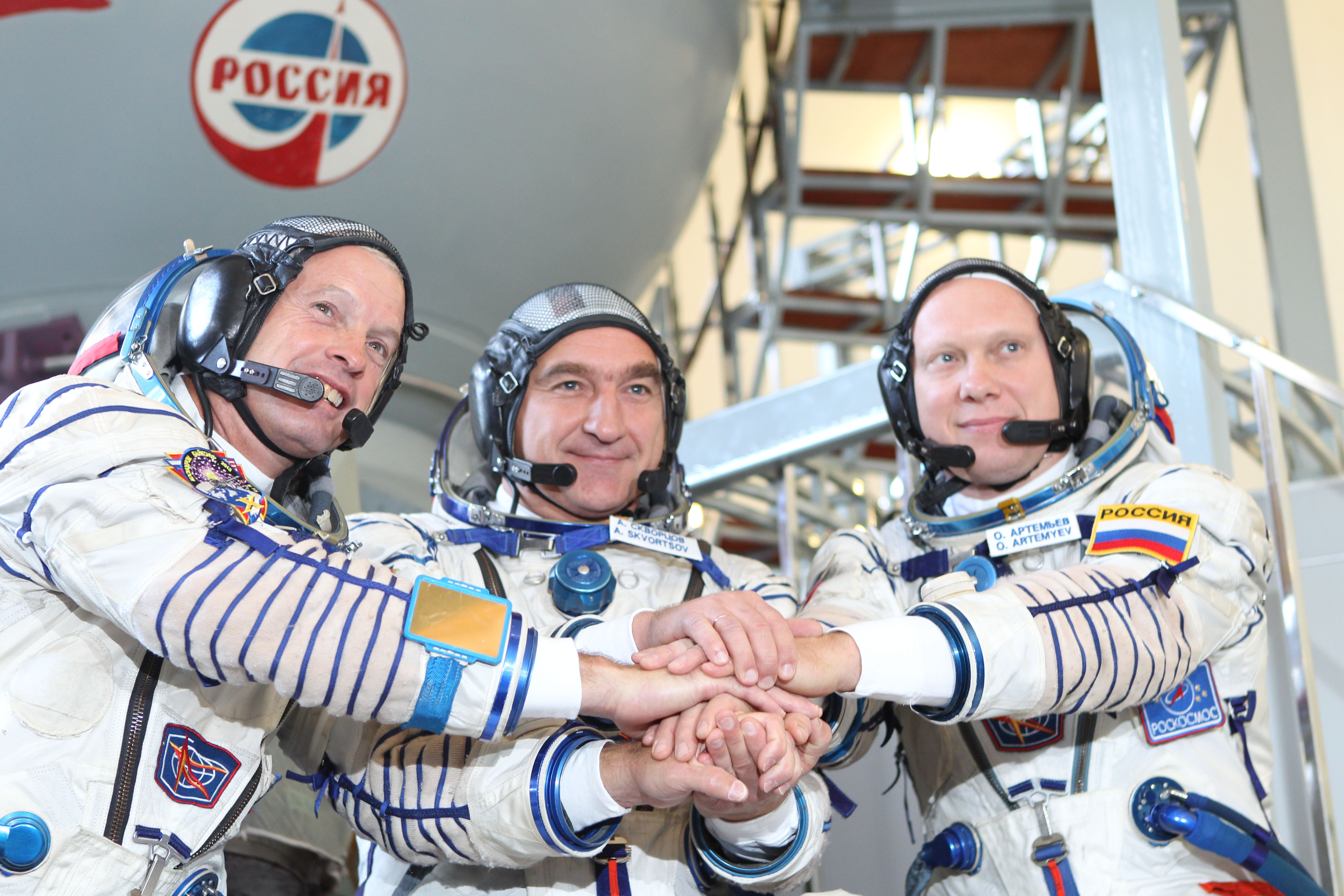 At the Gagarin Cosmonaut Training Center in Star City, Russia, Expedition 37/38 backup crew members Flight Engineer Steve Swanson (left) of NASA, Soyuz Commander Alexander Skvortsov (center) of Russia's Federal Space Agency and Flight Engineer Oleg Artemyev of Russia clasp hands Sept. 3 during a round of qualification exams. The trio is serving as backups to the prime crew – Soyuz Commander Oleg Kotov, Flight Engineer Sergey Ryazanskiy and Flight Engineer Michael Hopkins of NASA – who will launch to the International Space Station Sept. 26 in their Soyuz TMA-10M spacecraft from the Baikonur Cosmodrome in Kazakhstan.